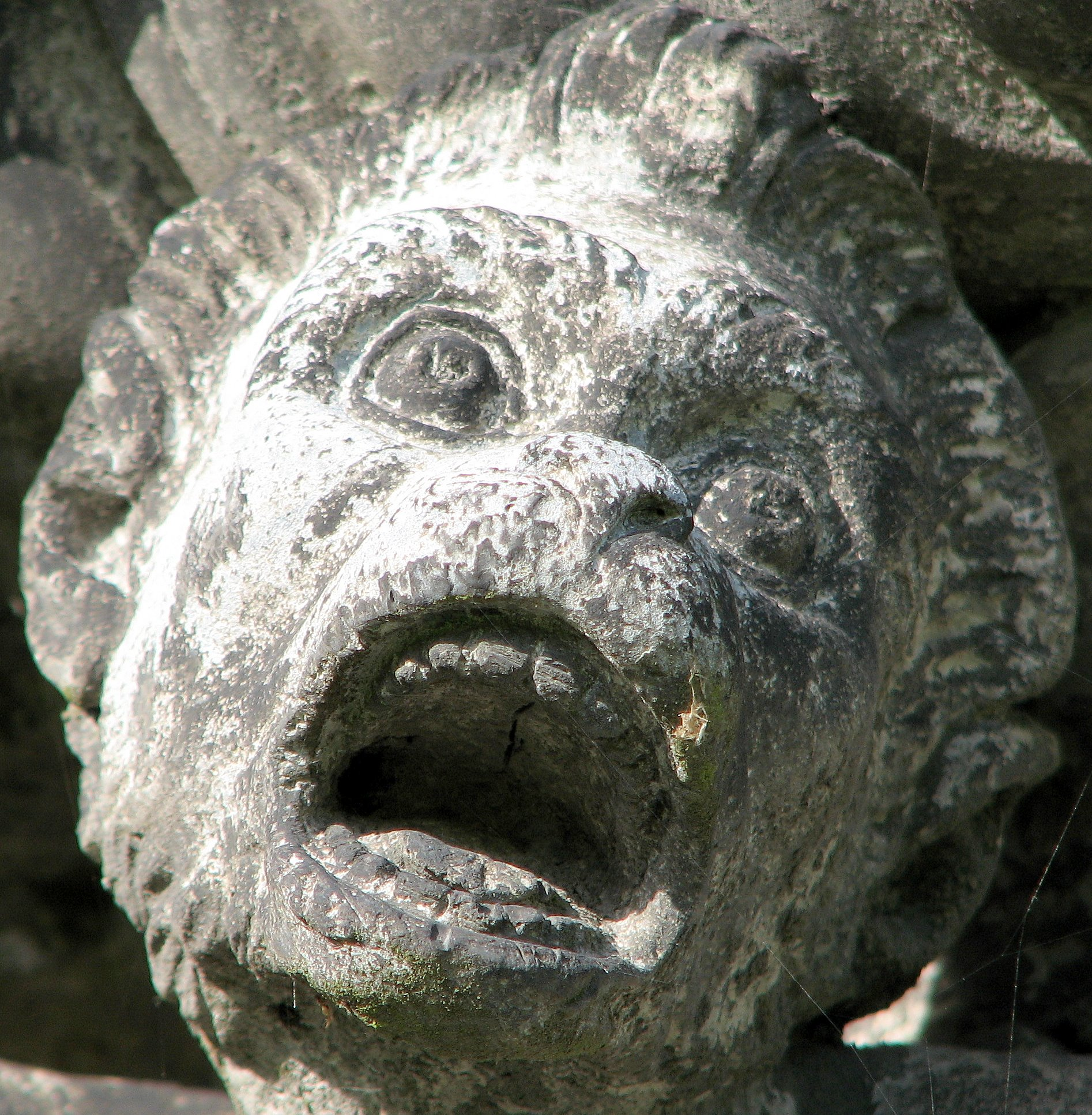 Close up of a scary figure on a large vase in the gardens of Melbourne Hall, Derbyshire